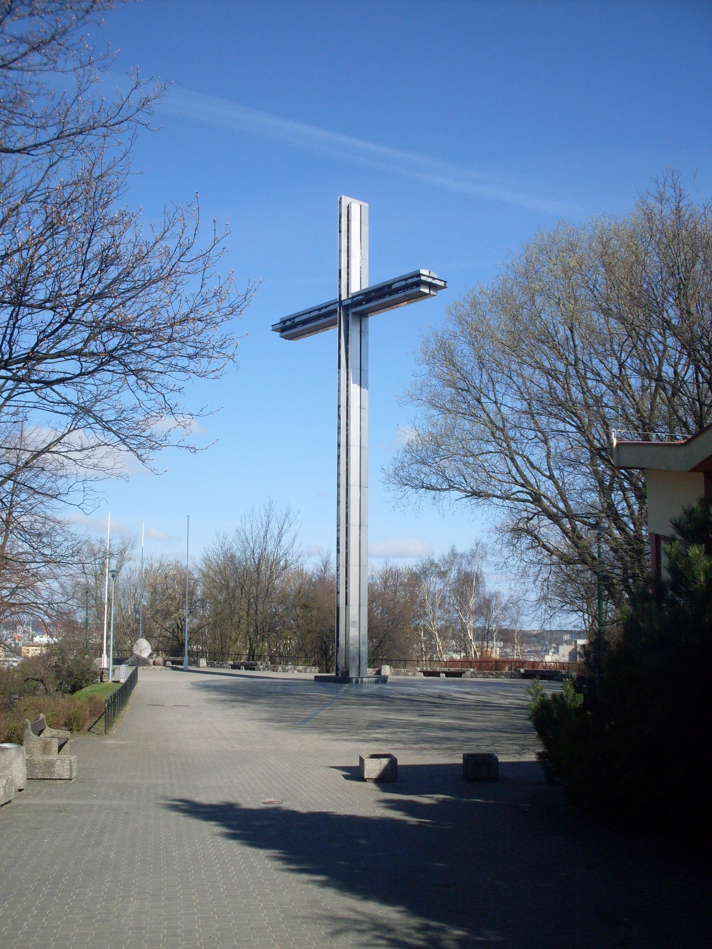 Cross on Kamienna Góra in Gdynia. View from Adama Mickiewicza Street.